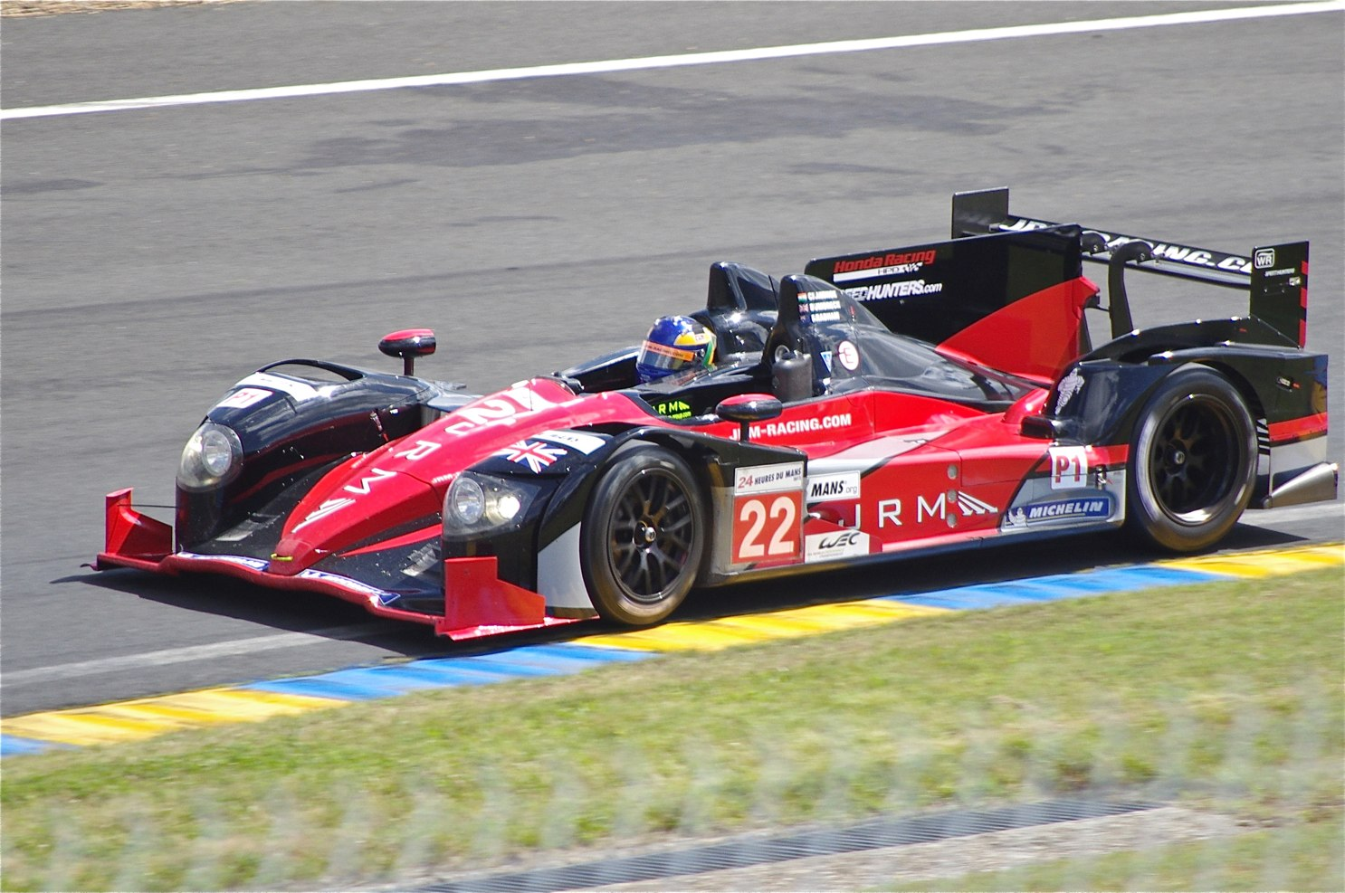 JRM's HPD ARX 03a Honda Driven by David Brabham, Karun Chandhok and Peter Dumbreck at Le Mans 2012.